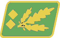 Collar tab, General of Polizei, 1942-45